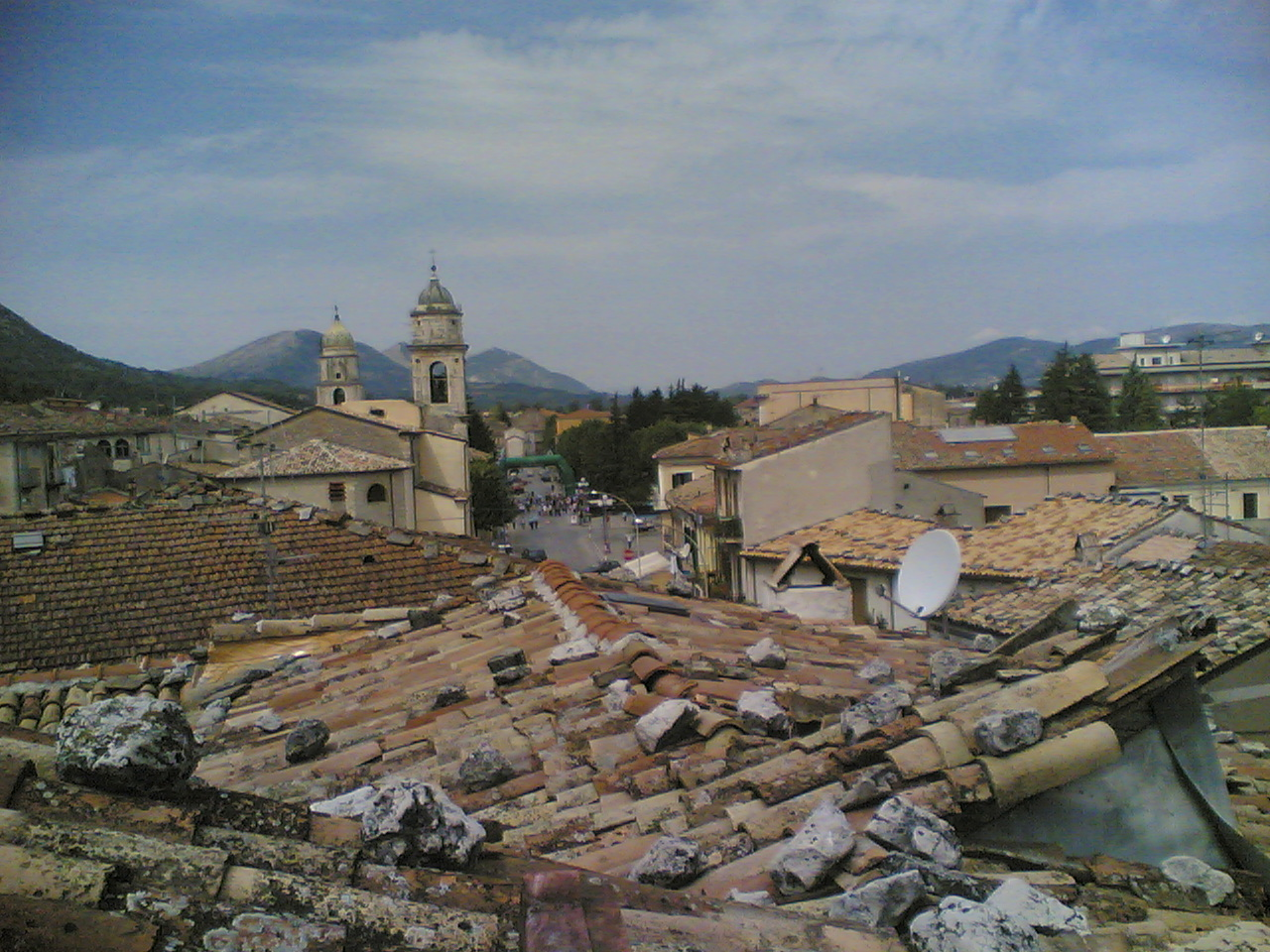 Roofs in Bojano, Molise, Italy